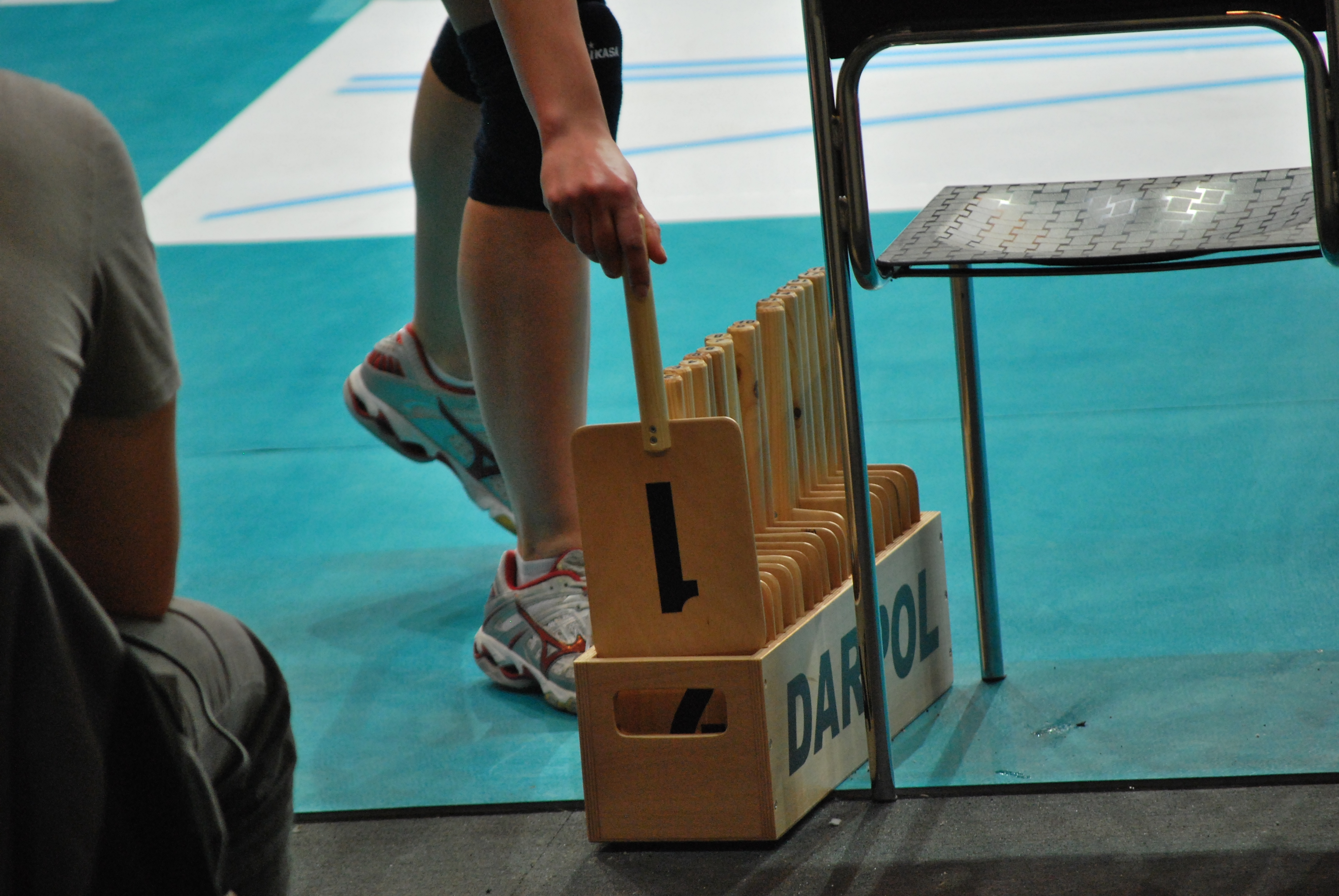 Volleyball equipment - changing plaques